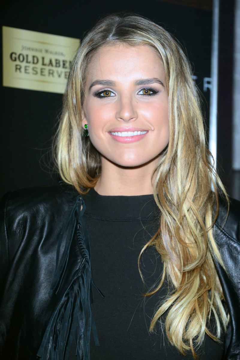 Vogue Williams attend the London Cabaret Club's Spring VIP launch Media.